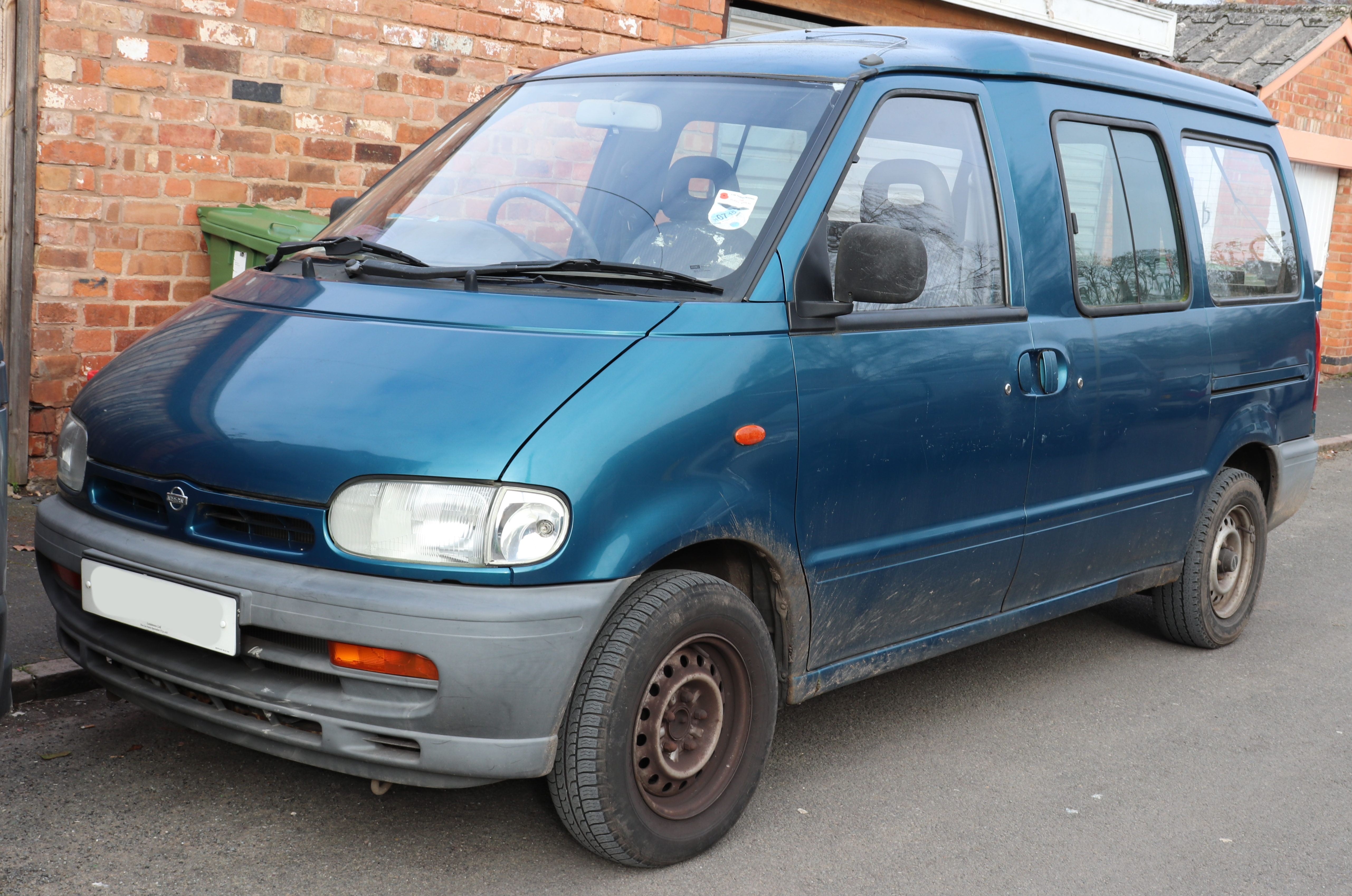 1995 Nissan Vanette Cargo Diesel 2.3 Front Taken in Leamington Spa